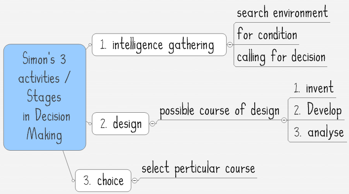 a chart created by me for Simon's 3 stages in Decision Making. (this is a Public Administration , Management related topic.)